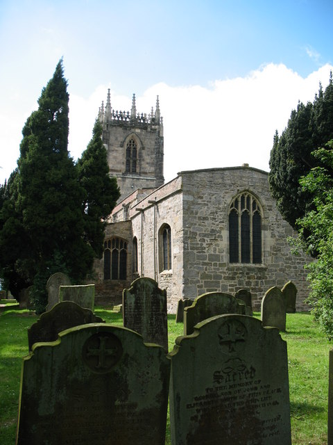 All Saints, Holme-on-Spalding-Moor, East Riding of Yorkshire, England.Hilltop church which dominates the flat country for miles around. The church dates mostly from the 13th century.